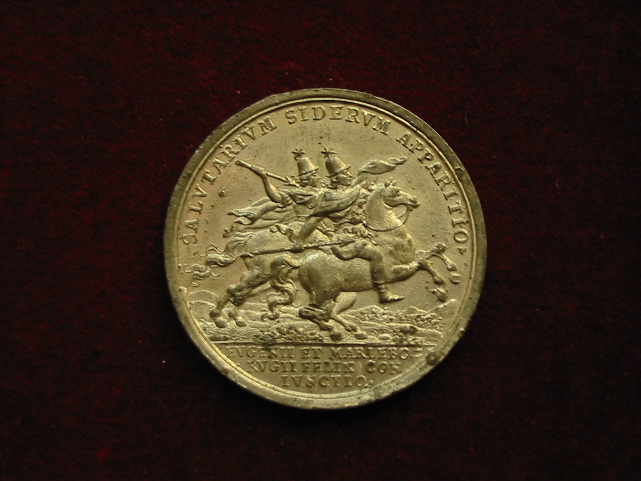 White metal medallion struck to commemorate the victory of the Duke of Marlborough & Prince Eugene of Savoy won at Oudenaarde on July 11, 1708 (obverse): two helmeted and armed riders moving right, stars above heads, inscription: SALVTARIVM SIDERVM APPARITIO^; in exergue: EVGENII ET MARLEBO:/RVGII FELIX CON./IVNCTIO